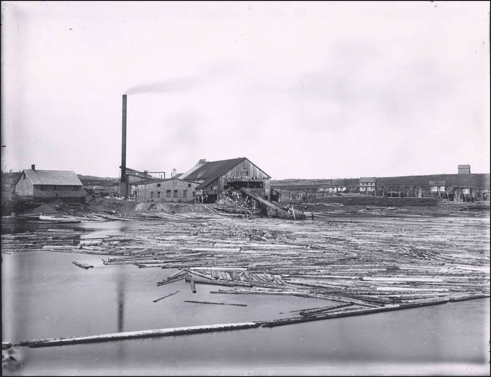 Exploits River Lumber & Pulp Company, "Botwoodville" ca. 1900